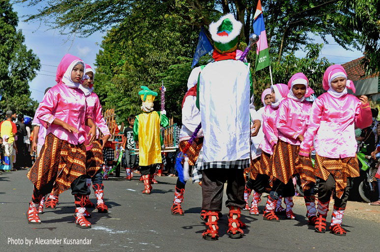 Karnaval Kroya